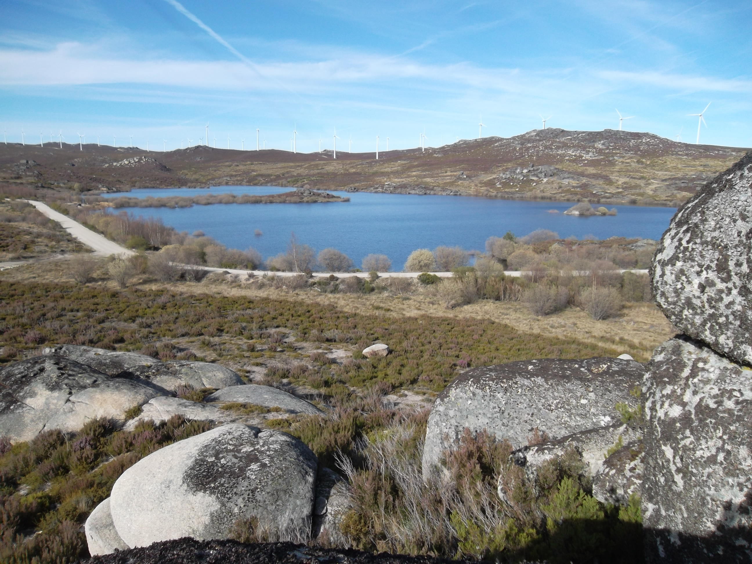 Located on the northeastern corner of Portugal, the Montesinho Natural ParK constitutes 75000 acres of mountains and forests of Mediterranean/Continental climate, where animals such as the Deer and the Iberian wolf inhabit.